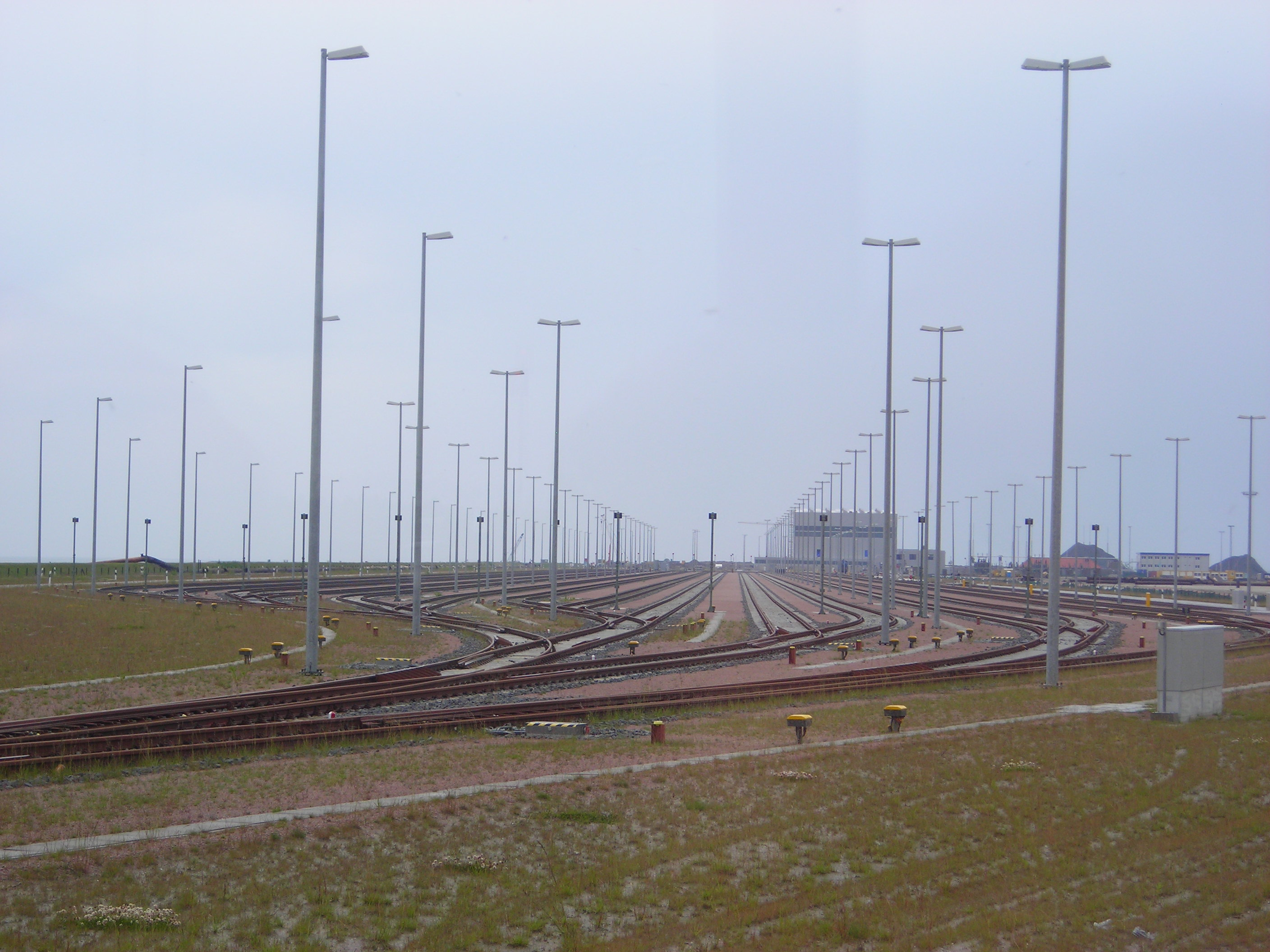 The JadeWeserPort switch yard with 16 lines